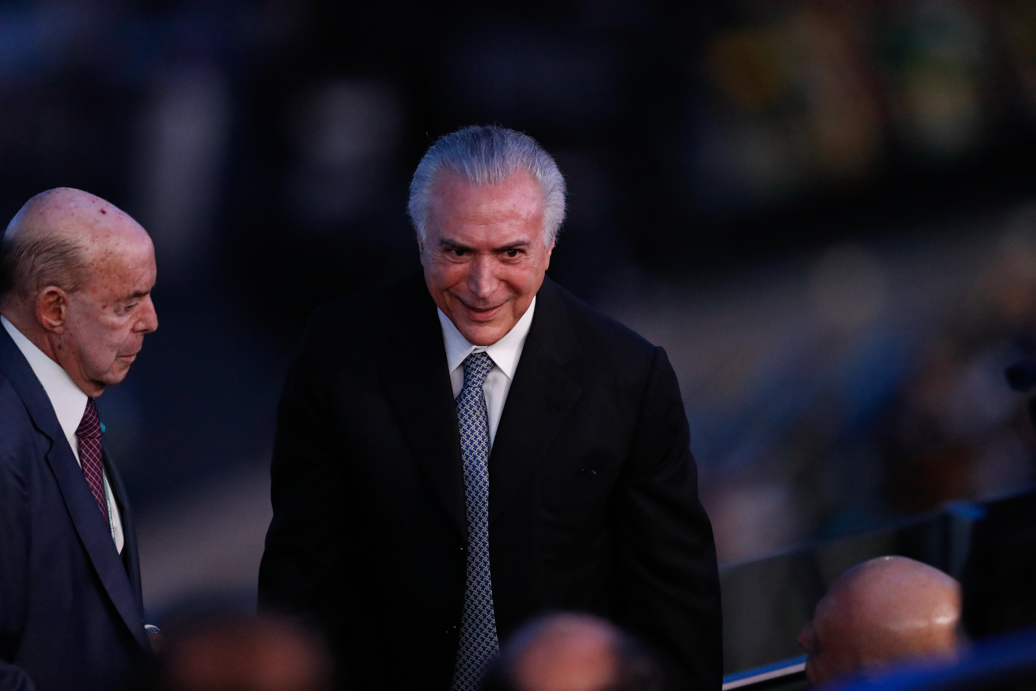 Rio de Janeiro - Cerimônia de abertura dos Jogos Olímpicos Rio 2016 no Estádio do Maracanã. (Fernando Frazão/Agência Brasil)